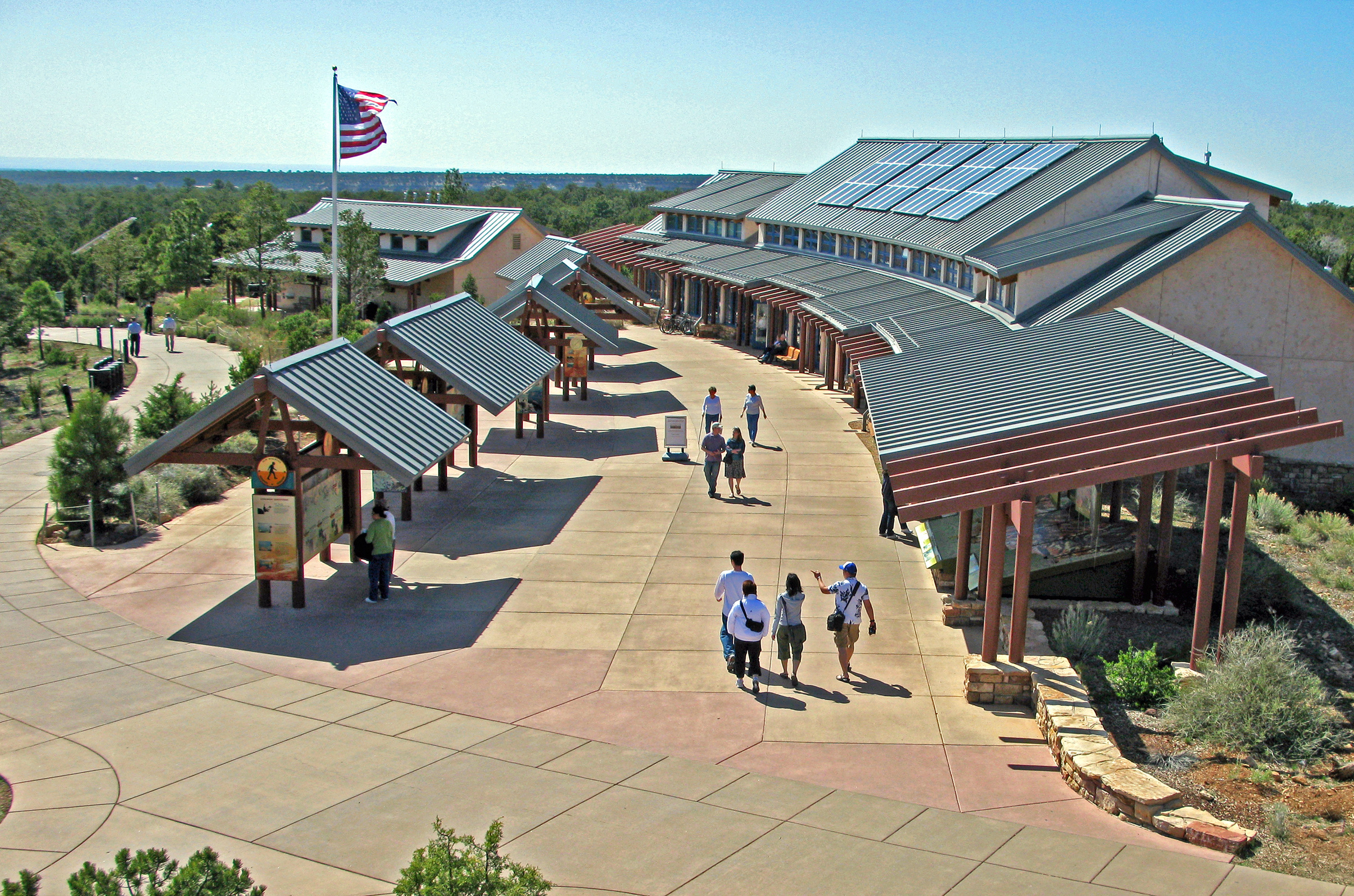 Grand Canyon Visitor Center, with solar panels on building's roof. In 2009, before the addition of a theater.